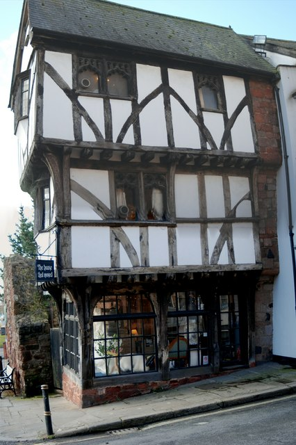 "The House that Moved" is at Stepcote Hill, beside St Mary Steps Church, Exeter. It is a small Tudor (1471) timber-framed house. One room-wide but three stories high, it created a bit of a sensation when it was threatened by road expansion in 1961. Rather than demolishing it, they decided to move it! It was put on rollers and moved to its current location, some 70 metres (75 yards) from the original place.